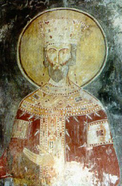 Cropped; King Bagrat III of Georgia